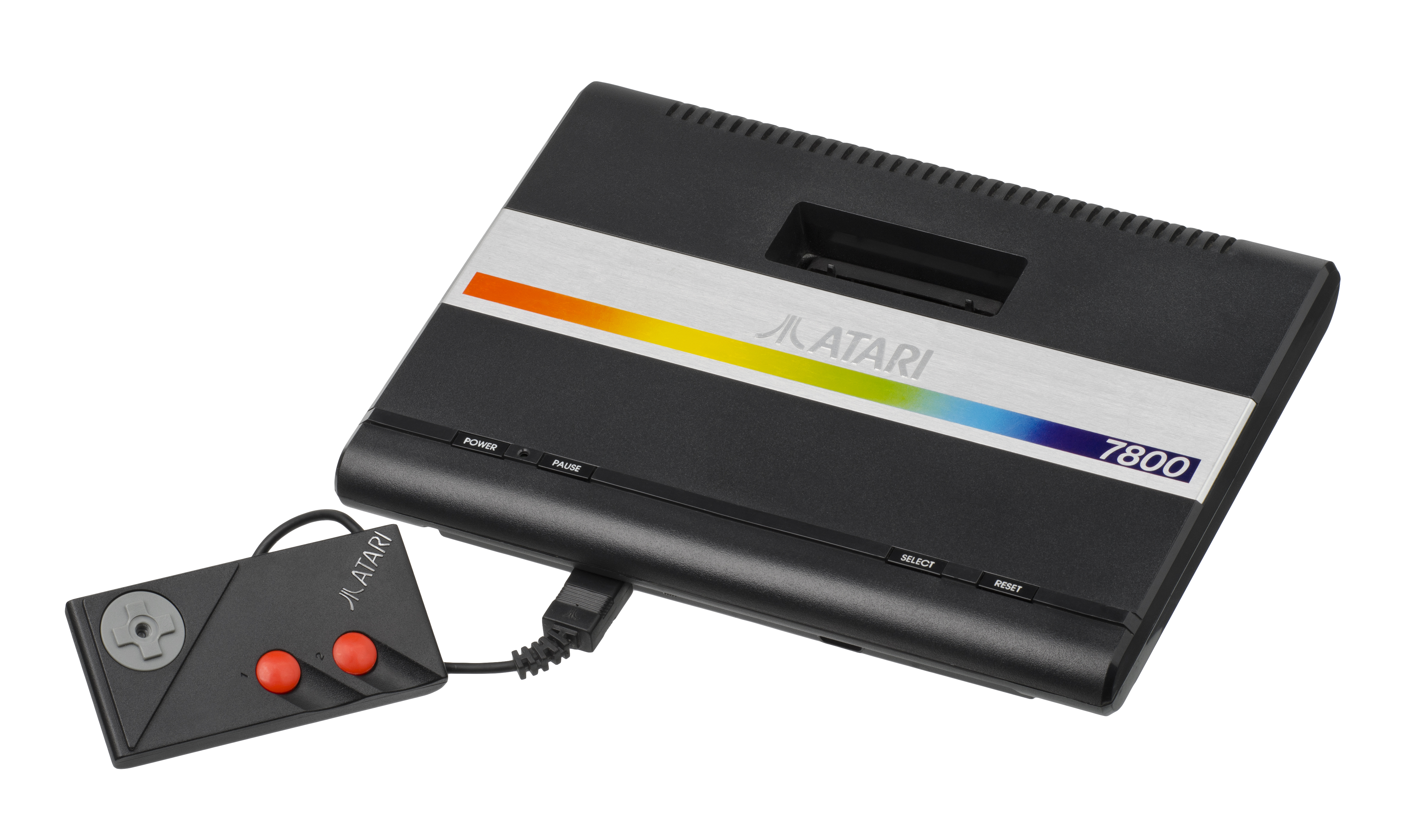 The European version of the Atari 7800 video game console, which features slightly different styling than the American version. The console is also shown with the joypad-style controller that was included as standard with the console.